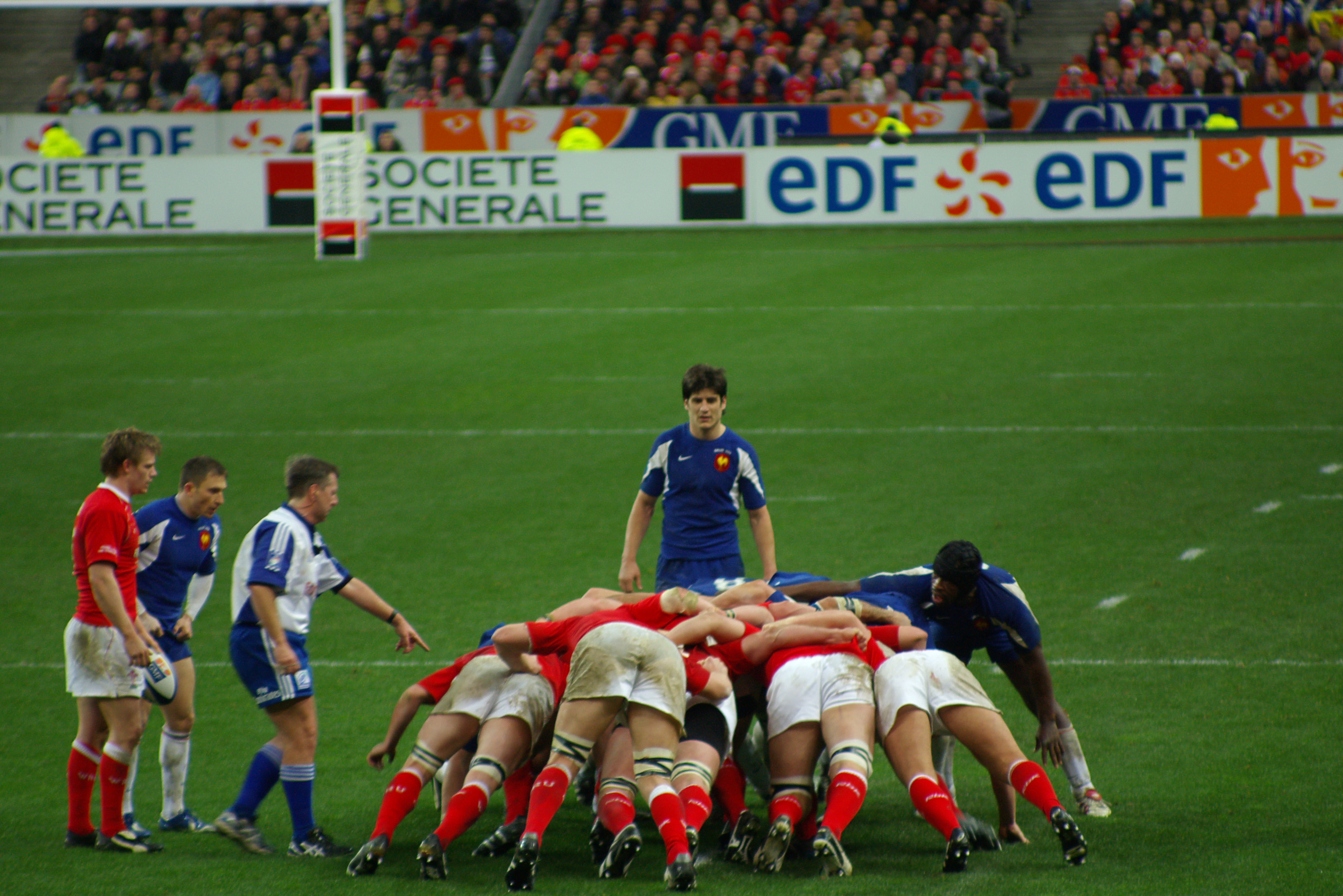 Pictures from the rugby game France vs Wales for 6 Nations 2007 which took place in Stade de France, Paris, 24/02/2007.